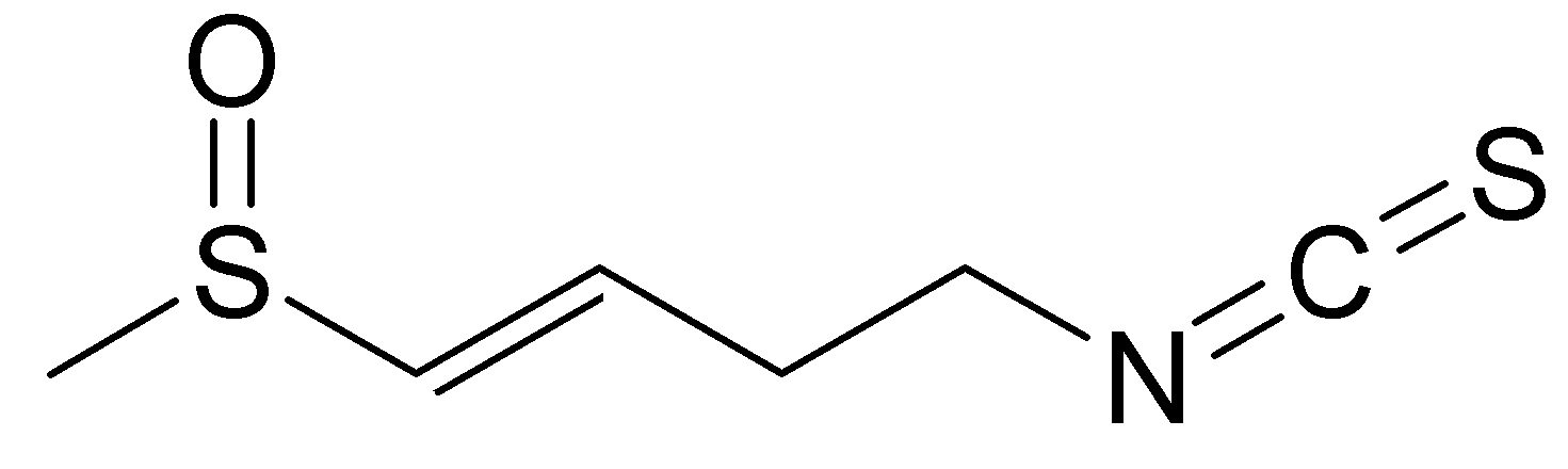 Chemical structure of raphanin